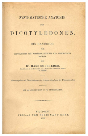 Title page of book by Hans Solereder (1860-1920)